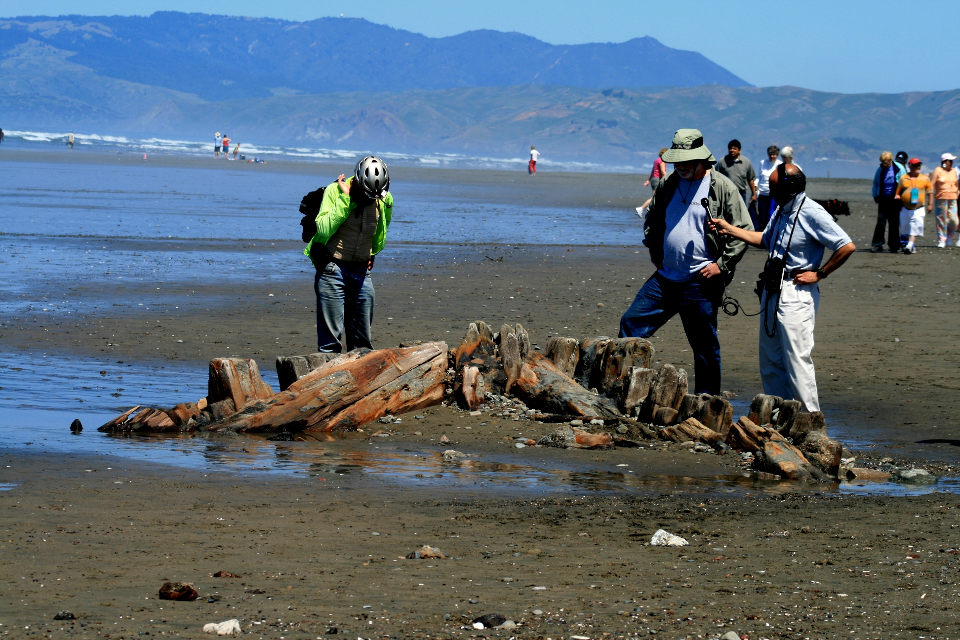 Shipwreck of The King Philip that went down around 1878. Sometimes the ocean shows that boat. Last time she appeared at the beach in 1980. The picture was taken at Ocean Beach, San Francisco